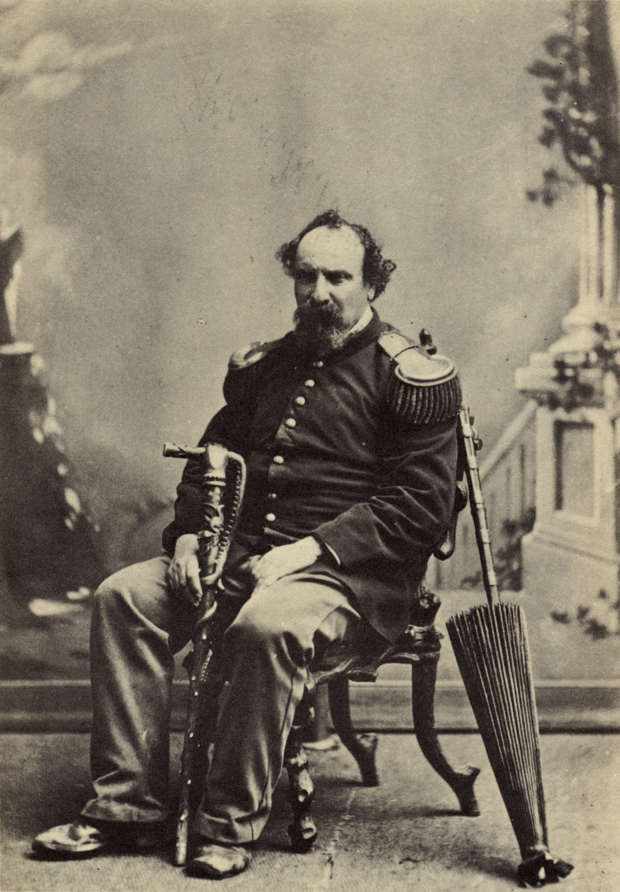 Image of His Imperial Majesty Emperor Norton I, also known as Joshua A Norton.